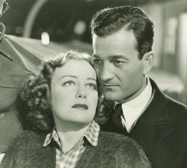 Judith Allen and Milburn Stone in Port of Missing Girls (1938) - publicity still (cropped)